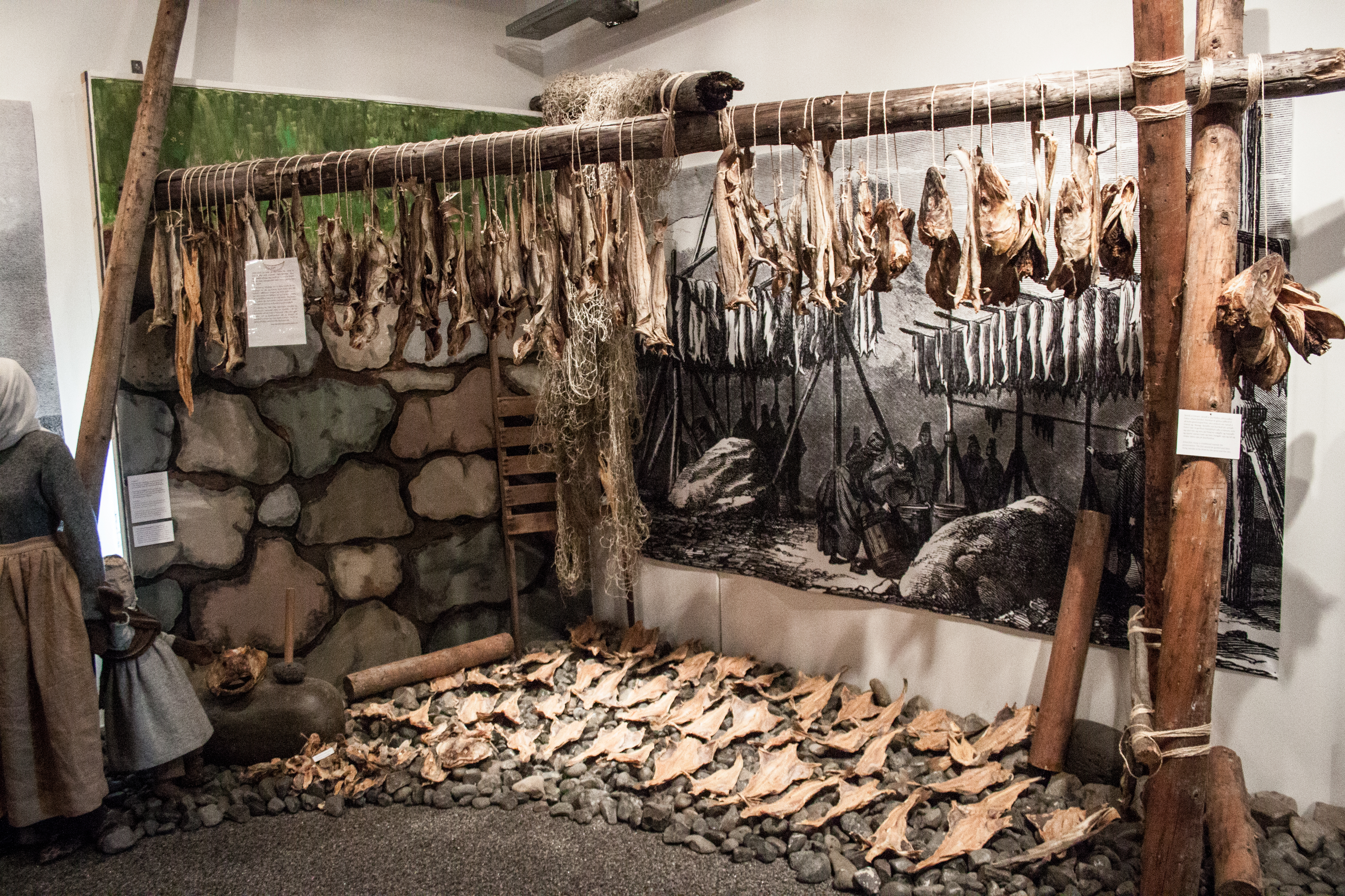 Reykjavík harbour in 1910, offloading of fish from the rowboat